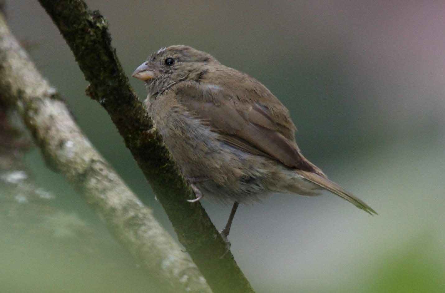 Dull-colored Grassquit in Peru